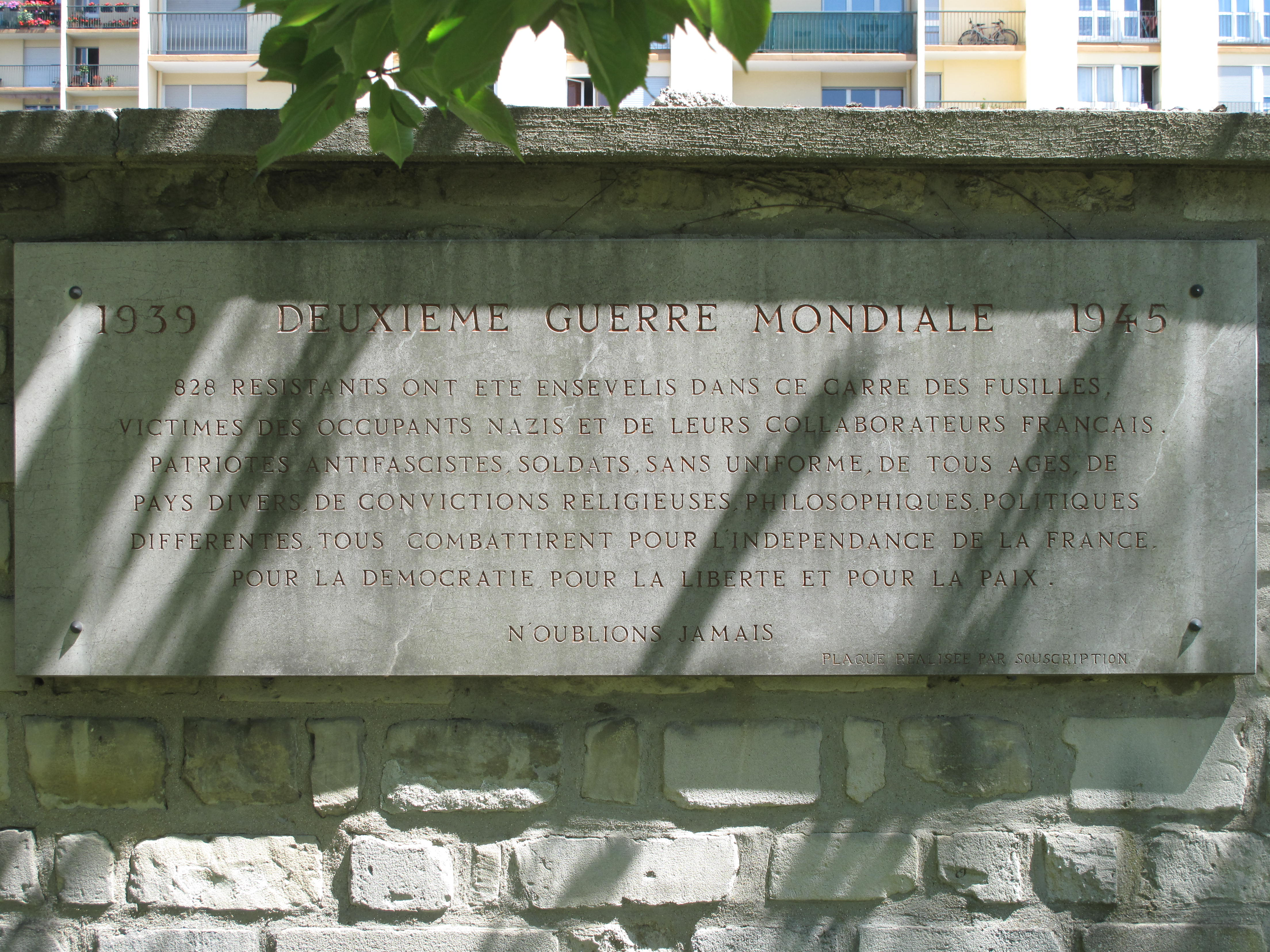 Plaque commemorating the French Resistance during WWII on the wall of the cemetery of Ivry-sur-Seine, (Val-de-Marne, France).